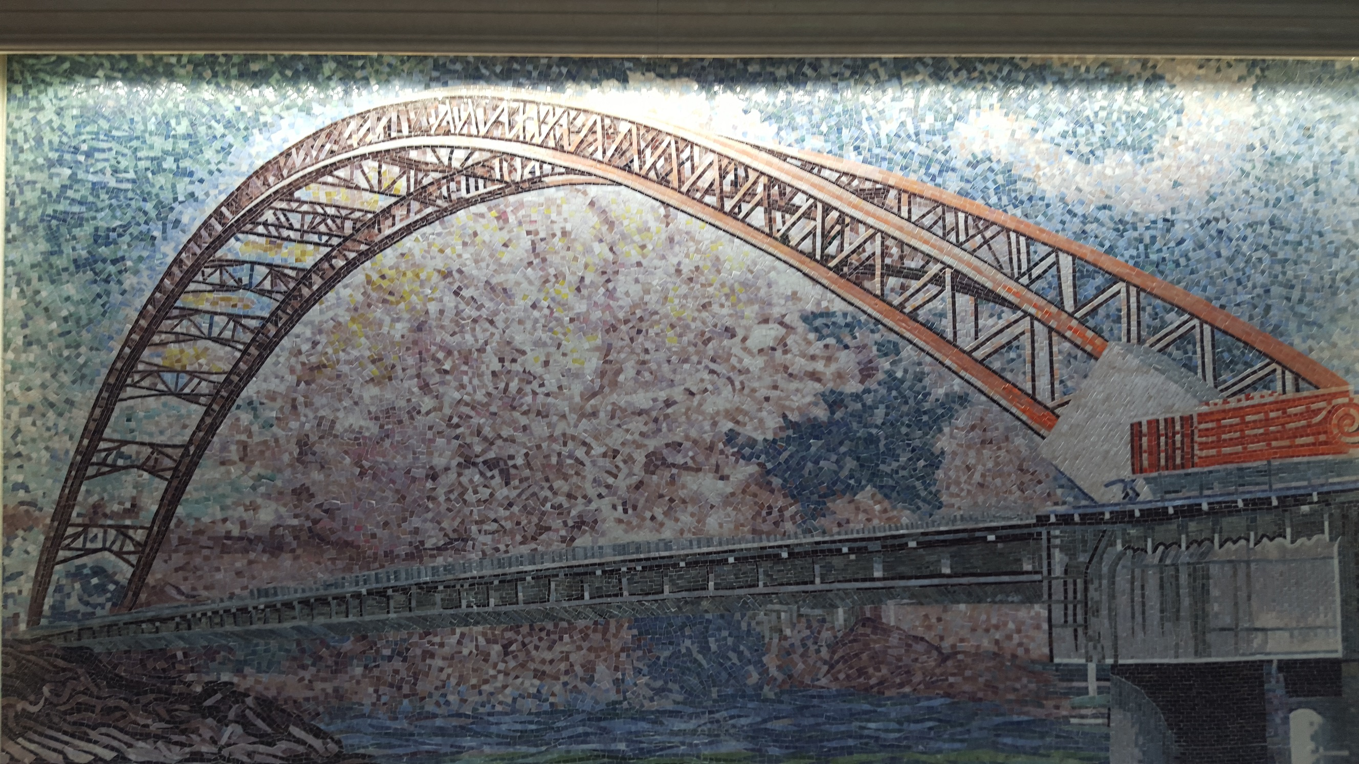 Art Wall in Zongguan Station, Wuhan Metro